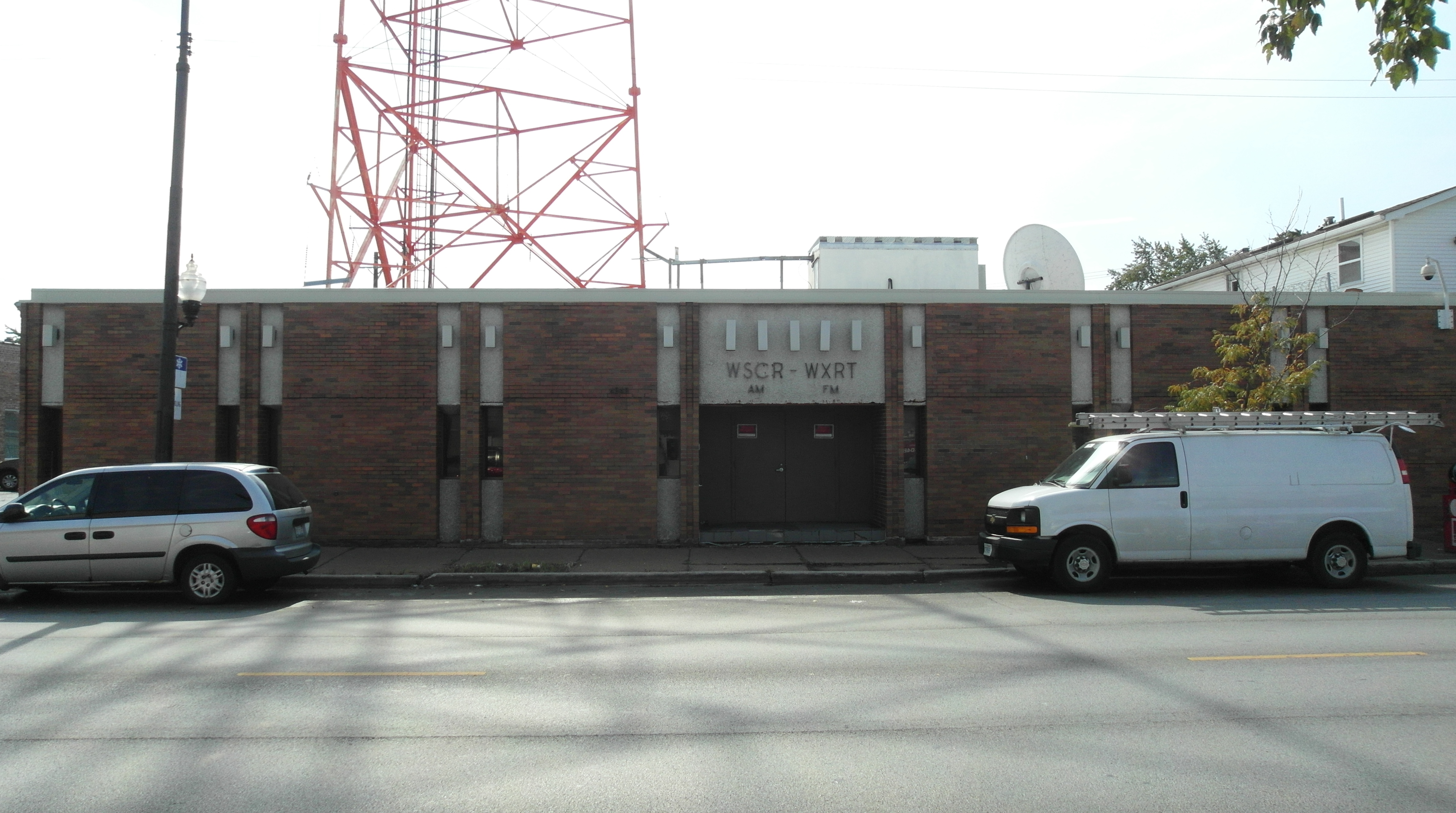 Former studios of WSCR and WXRT at 4949 W. Belmont in Chicago